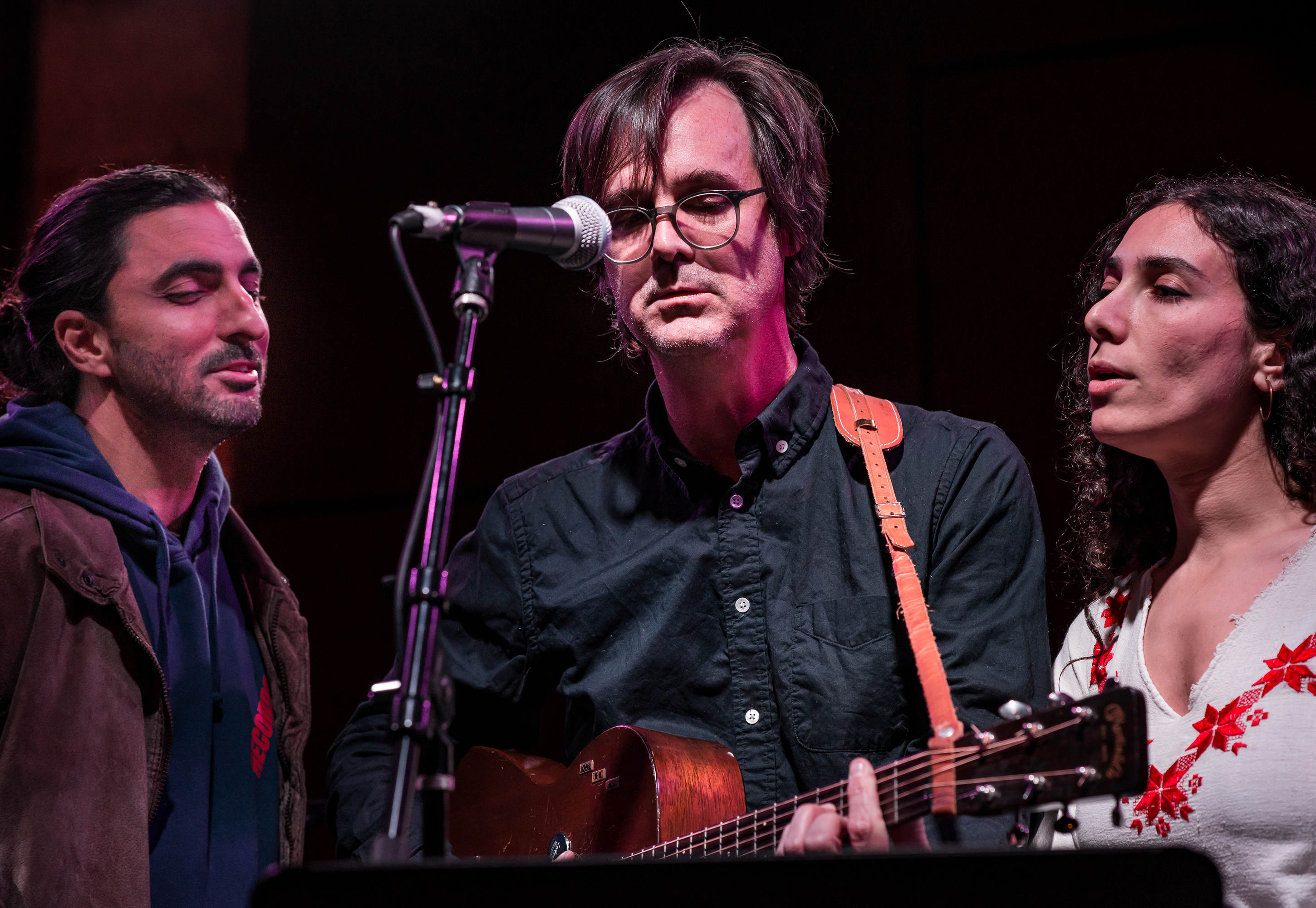 Michael Andrews at the "Unsung Heroes" Tribute in January 2017